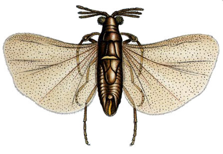 Triozocera mexicana (Triozocera)